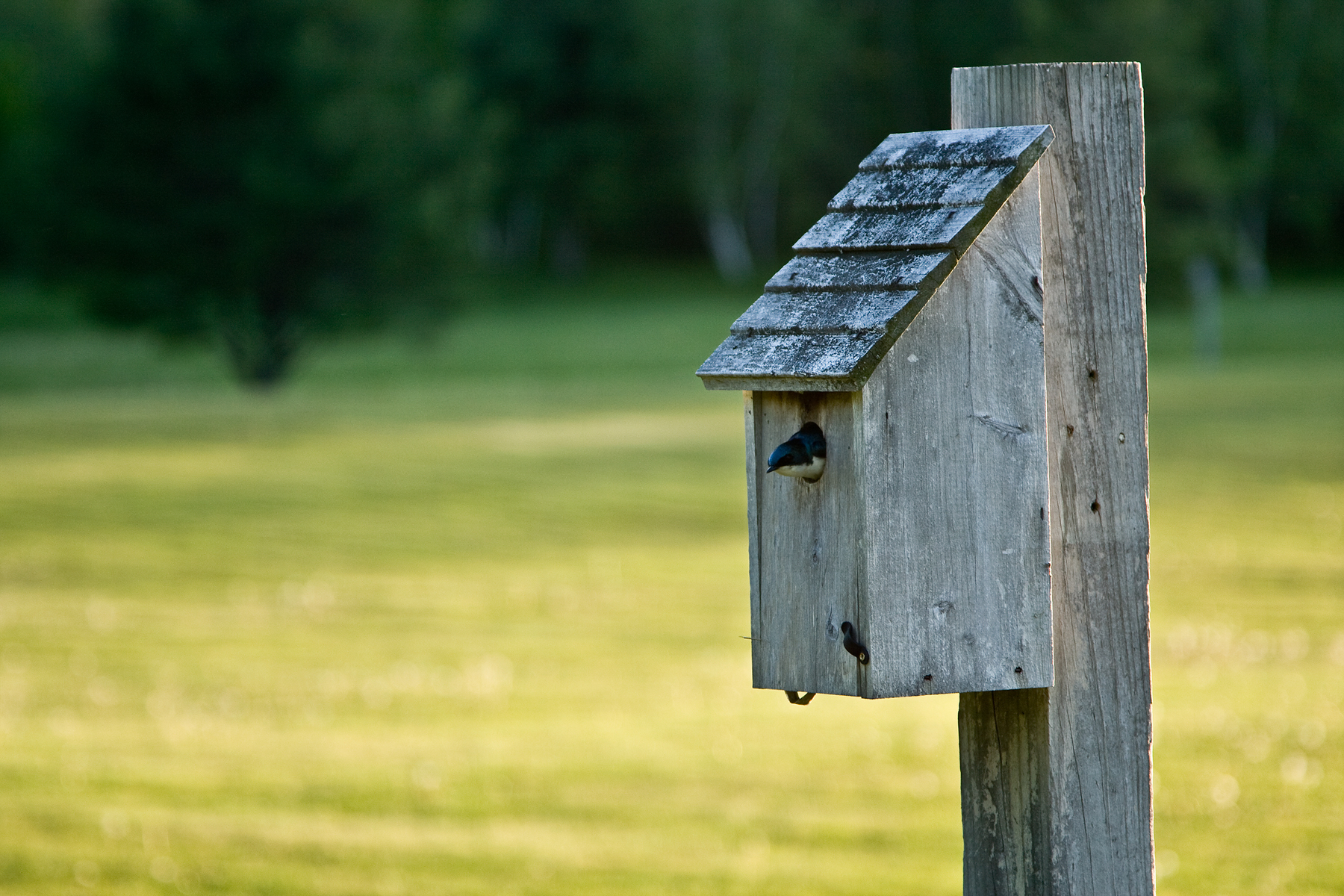 Tree Swallow nesting. Skowhegan, Maine.